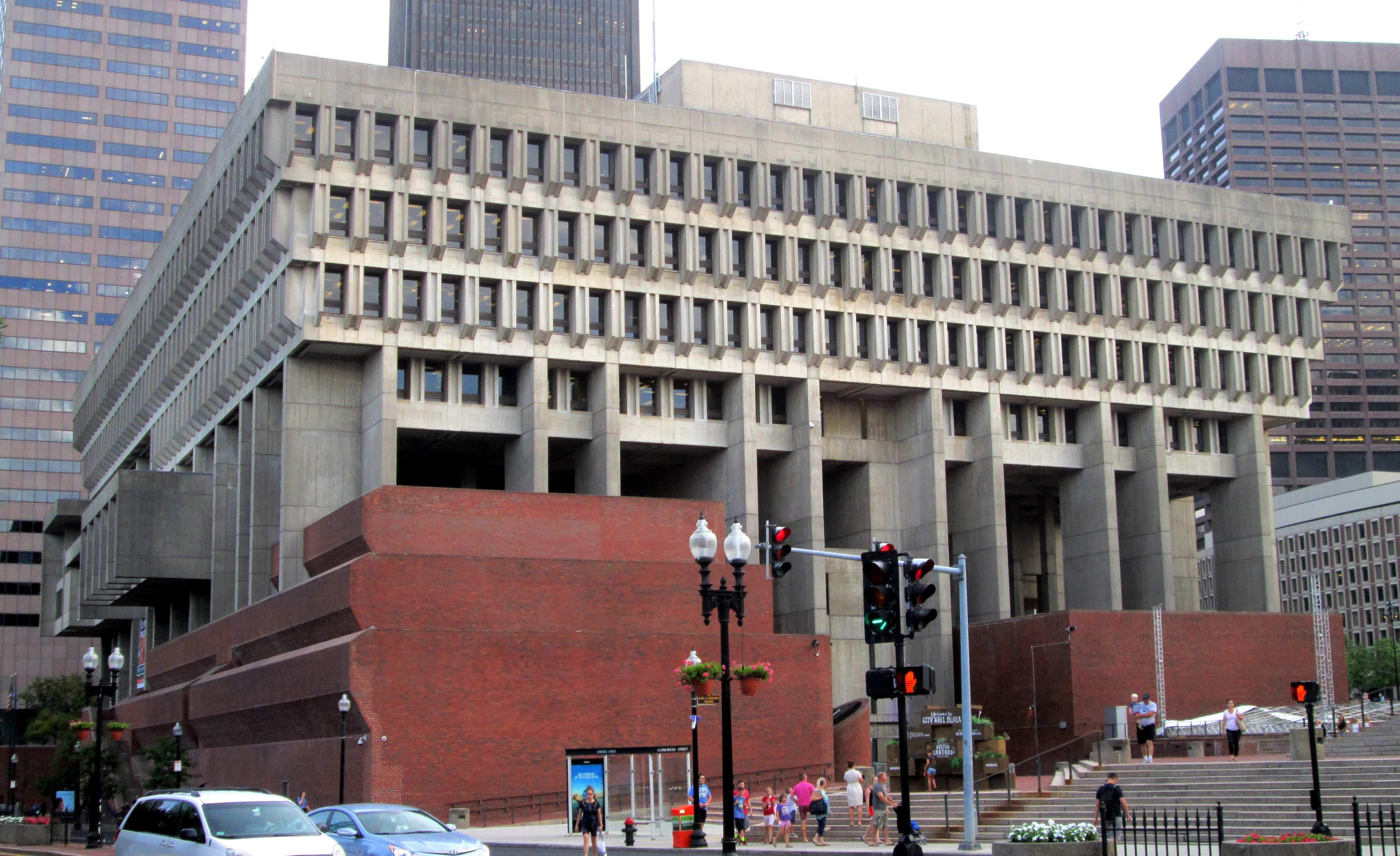 The fourth and current Boston City Hall, located at 1 City Hall Square in Government Center, Boston, Massachusetts, opened in 1969 and was designed in the Brutalist style by the architecture firms of Kallmann McKinnell & Knowles with Campbell, Aldrich & Nulty. The engineering was by Lemessurier Associates.